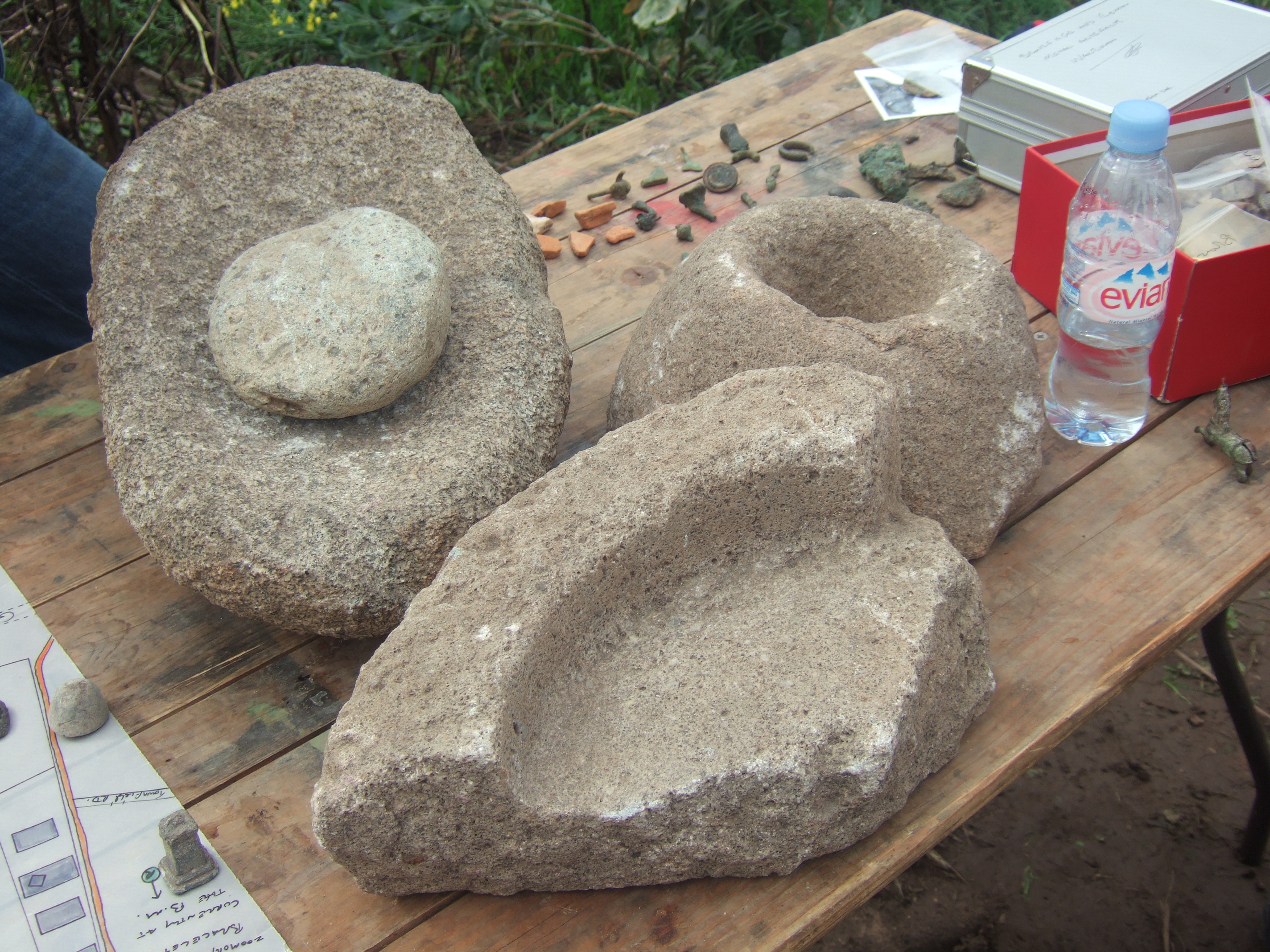 Examples of archaeological finds in Warburton.